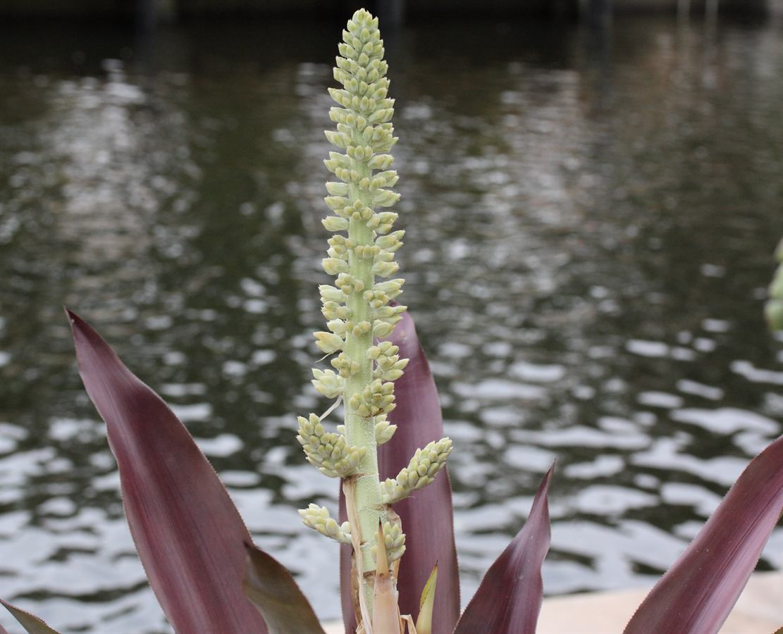 Androlepis skinneri - female